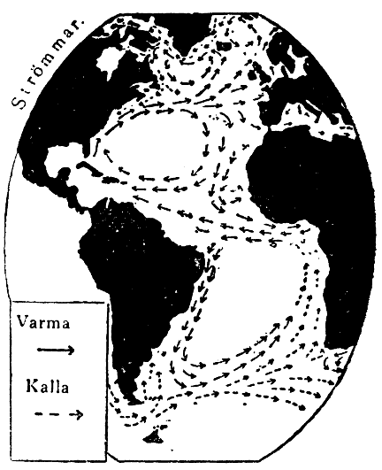 Currents in the Atlantic ocean